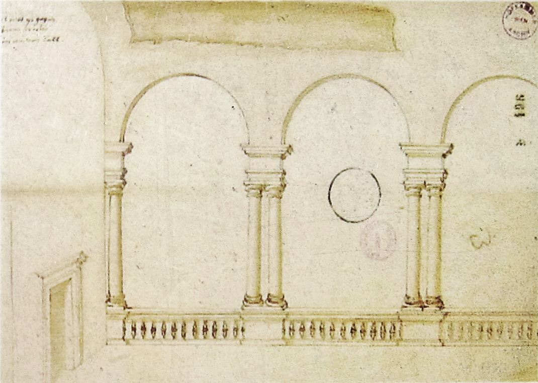 Drawing by Anton de Moys of the arcade of Neugebäude Palace in Vienna.